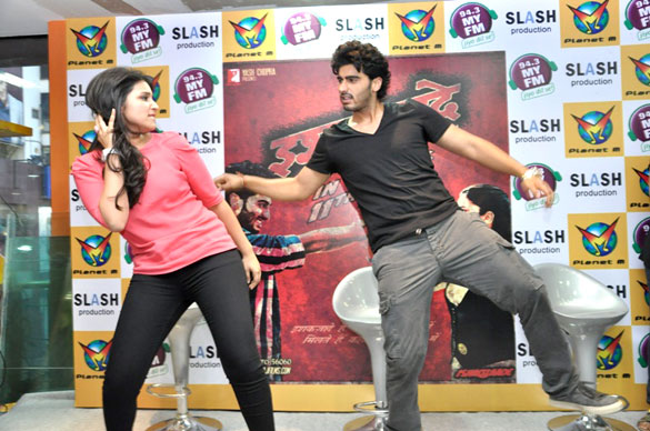 Parineeti Chopra,Arjun Kapoor From The Cast of 'Ishaqzaade' visit Planet M, Jaipur.